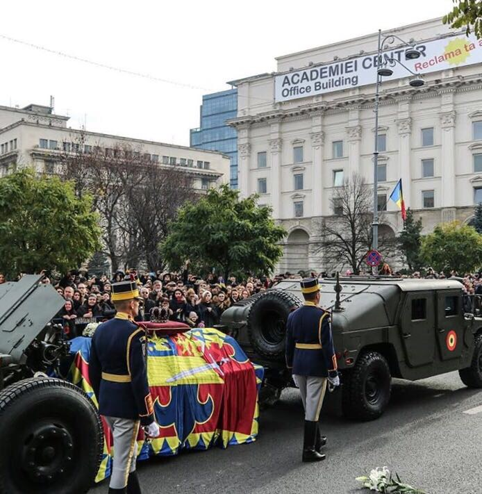 Funeral procession of King Michael